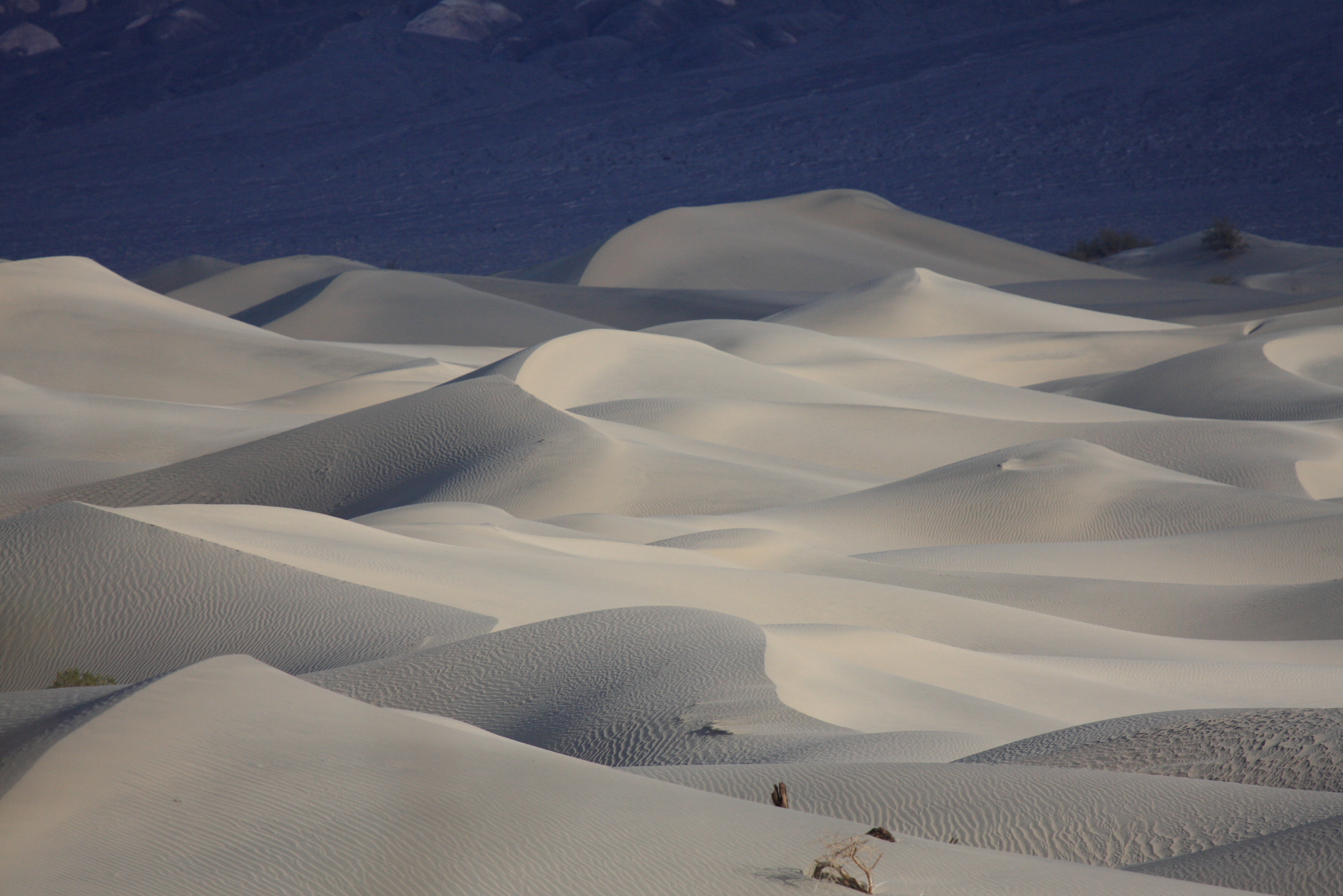 Mesquite Flat Sand Dunes, Death Valley National Park, California, USA.